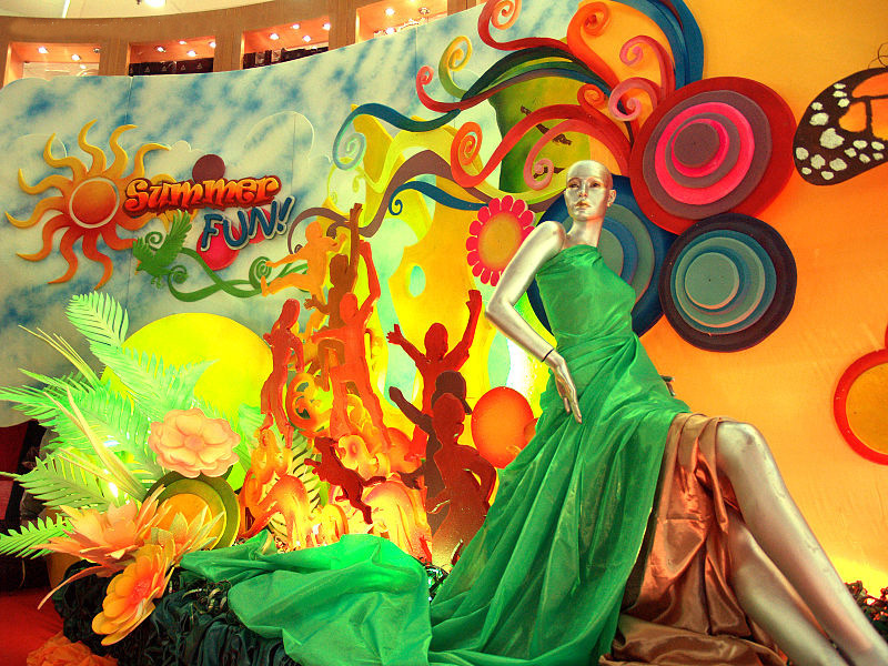 Visual Merchandising, an indoor display at Hua Ho Department Store Brunei.